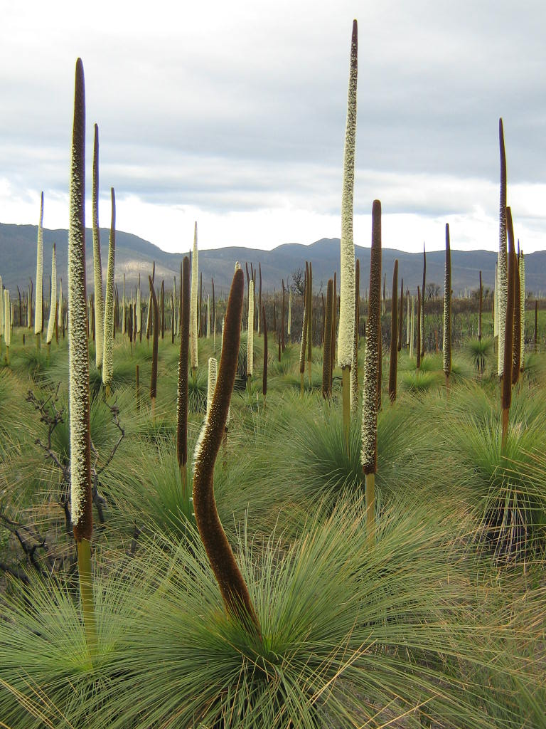 Grass trees 7 months after February 2009 bushfire. Grass Trees at Wilsons Promontory, Wilsons Promontory, Australia